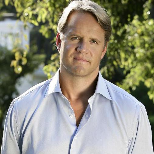 The is a photo of Carl Freer taken by Julia Freer (his daughter) in Los Angeles, CA, Feb 2012.